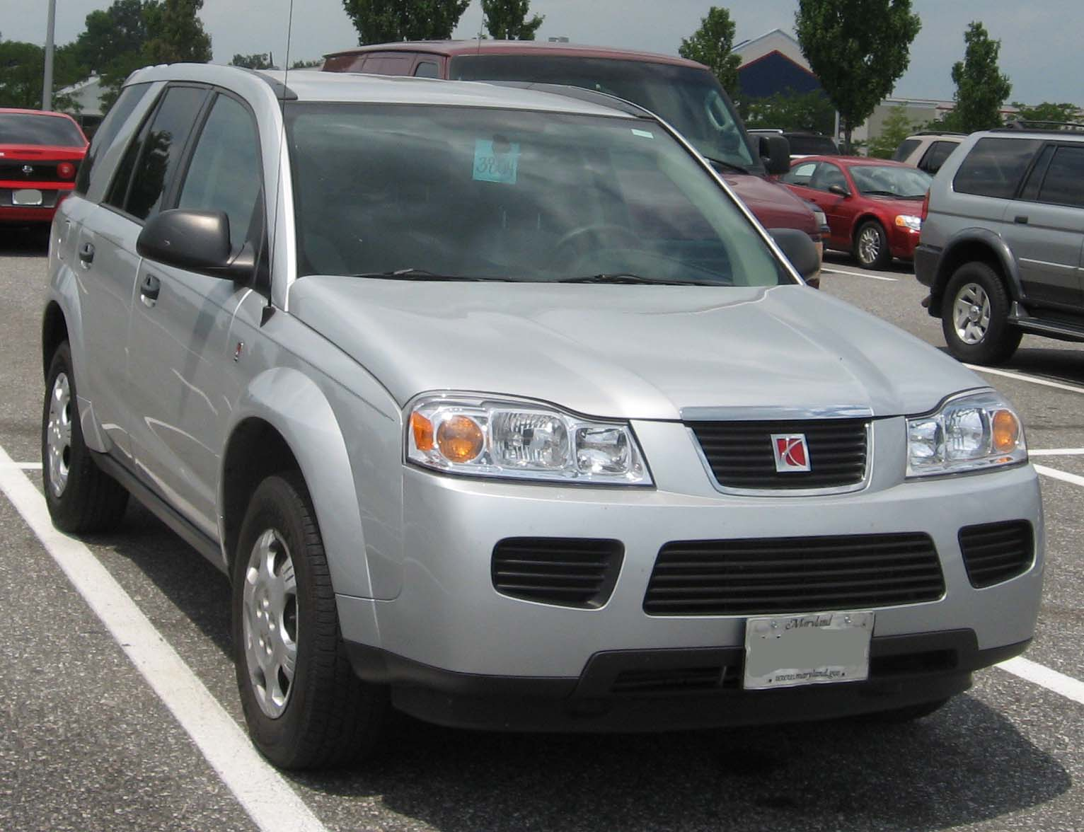 2006-2007 Saturn Vue photographed in USA.